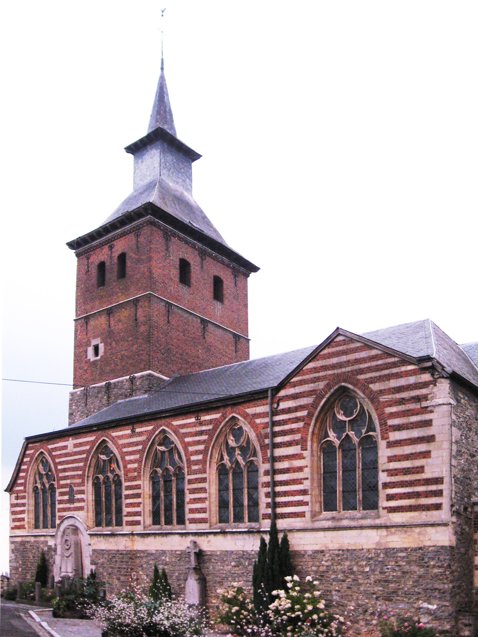 Church of Saint Peter in Thys, Crisnée, Liège, Belgium